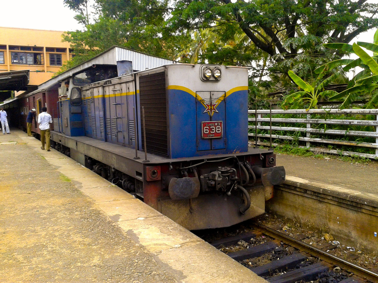 Sri lanka Railways class W3 Diesel hydraulic locomotive at Polgahawela Locomotive builder: Henschel thyssen,West germany Repowered with CAT 3512DITA V12 engine in 1997 Total units: 10 (631,636,638,647,659,665,666,667,669,673) Power: 1200hp Length: 39 Wheel arrengment: B-B Railway station.